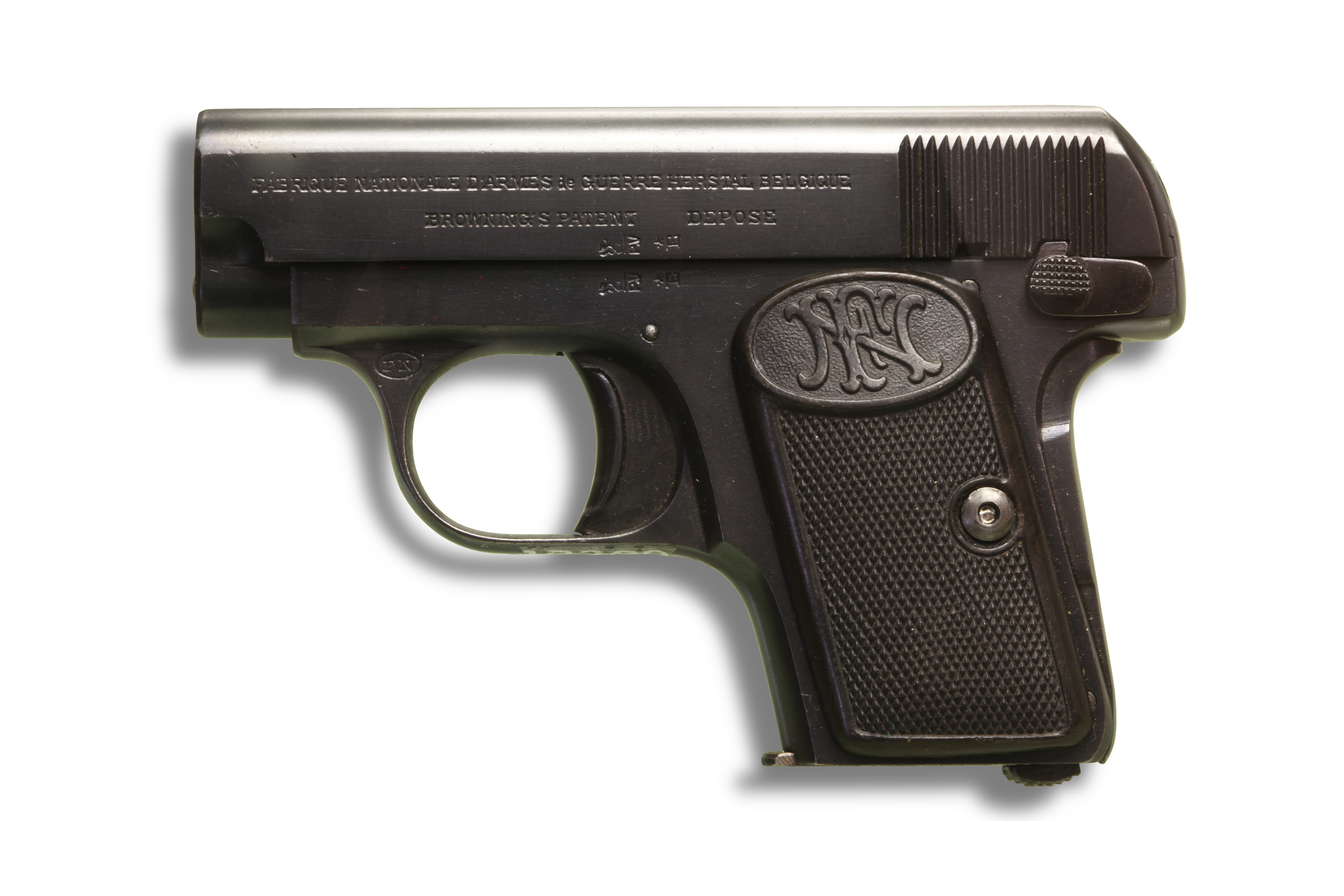 FN modèle 1906 pistol, serial number 904166; this particular pistol was the private weapon of Swiss general Henri Guisan. On display at Morges military museum, accession number MMV 1004729.